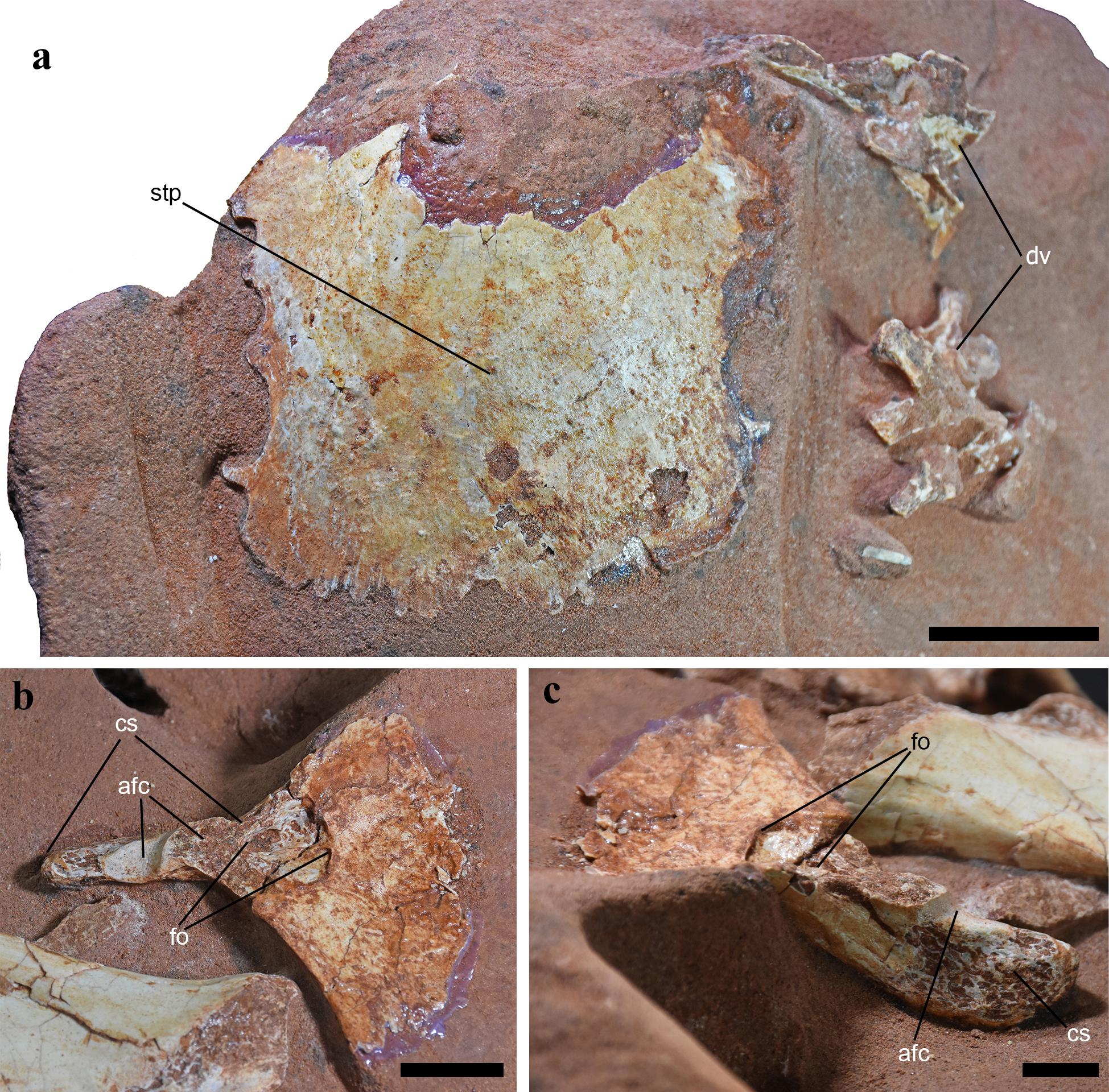 Figure 6. Sternum of Keresdrakon vilsoni gen. et sp. nov. (CP.V 2069, part of the holotype). (a) ventral, cristospine in dorsal (b) and (c) right lateral views. Abbreviations: afc - articular facet for coracoid, cs - cristospine, fo - foramen, stp - sternal plate Scale bars = (a) and (b) 50mm, (c) 20mm.